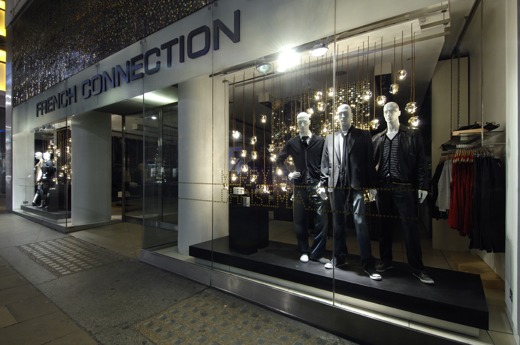 photograph of french connections flagship store on oxford street london by Andrew Meredith